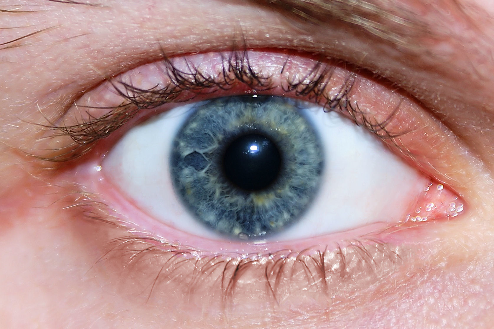 Blue eye